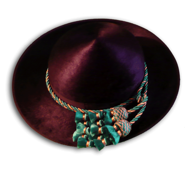 Roman hat (as worn by an archbishop